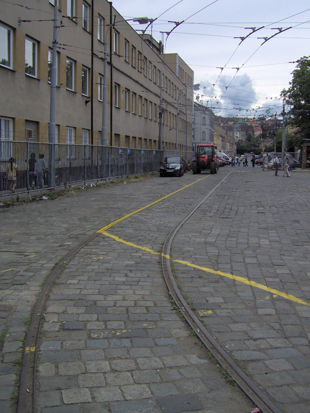 Rail track in Husovice trolleybus depot (former tram depot), 140 years of public transport in Brno, Czech Republic